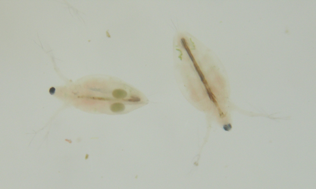 Daphnia species